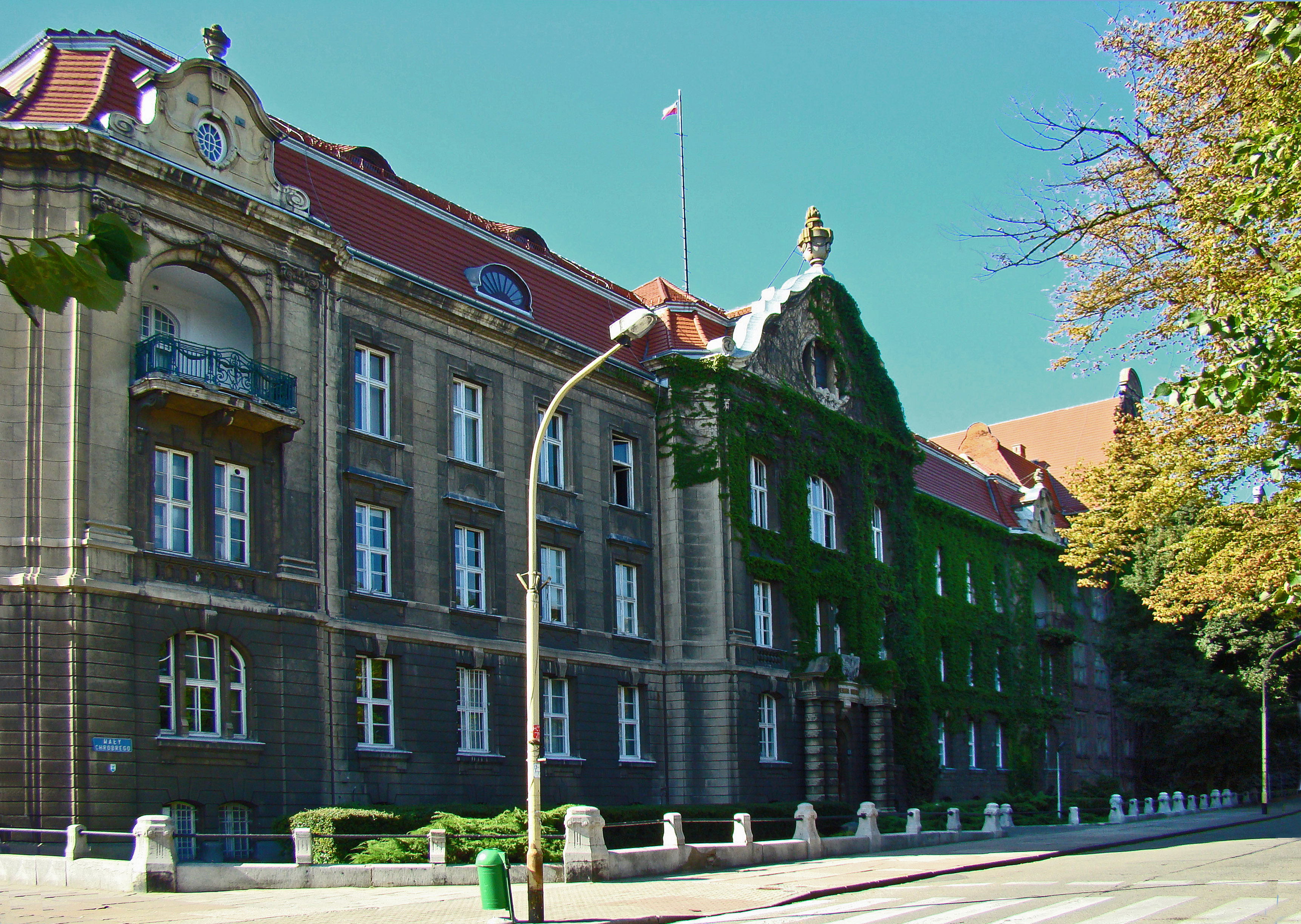 Maritime University of Szczecin, Poland